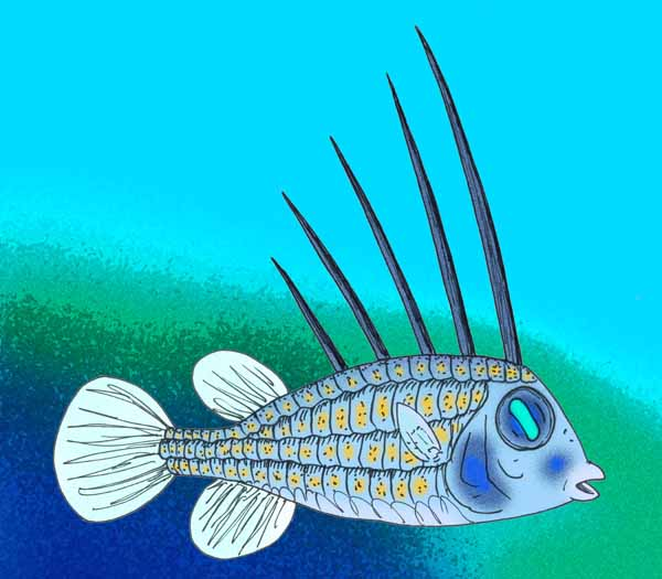 Reconstruction of the spinacanthid tetraodontid, Protobalistum imperiale, from the Monte Bolca lagerstatten, of Ypresian Italy